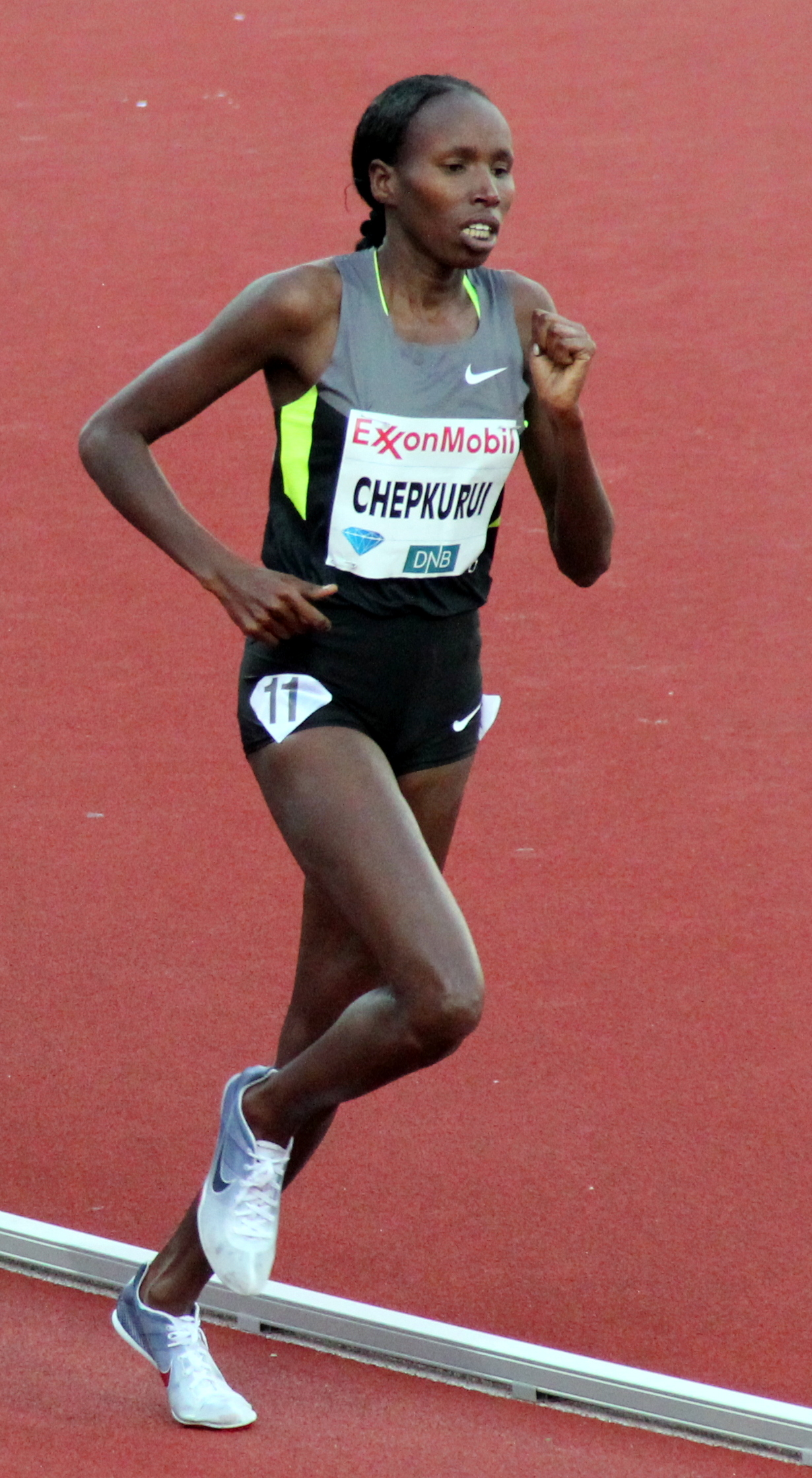 Lydiah Chepkurui, steeplechaser from Kenya, born 23 August 1984, at the 2012 Bislett Games